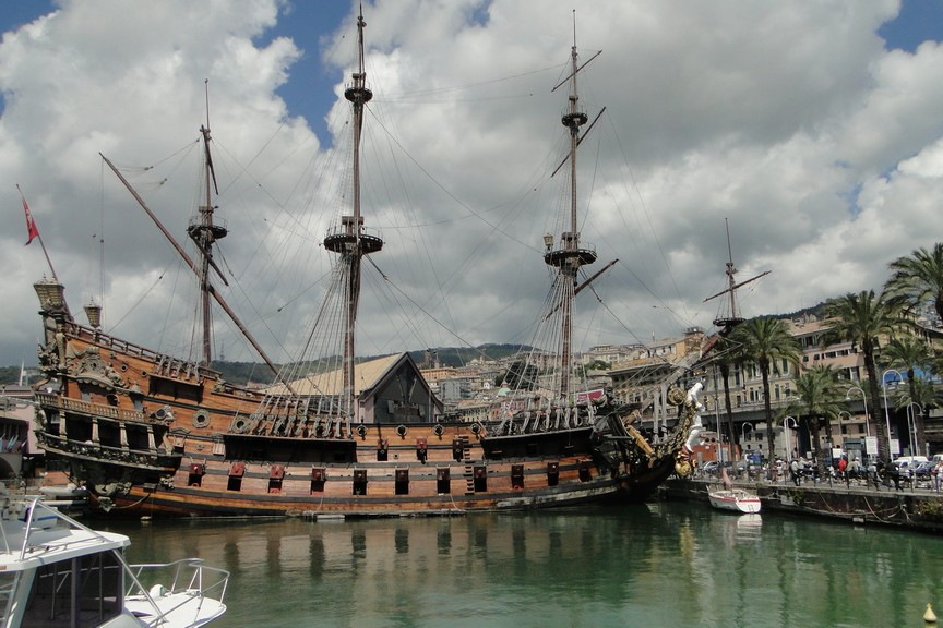 The galleon "Neptune" docked in Genoa.